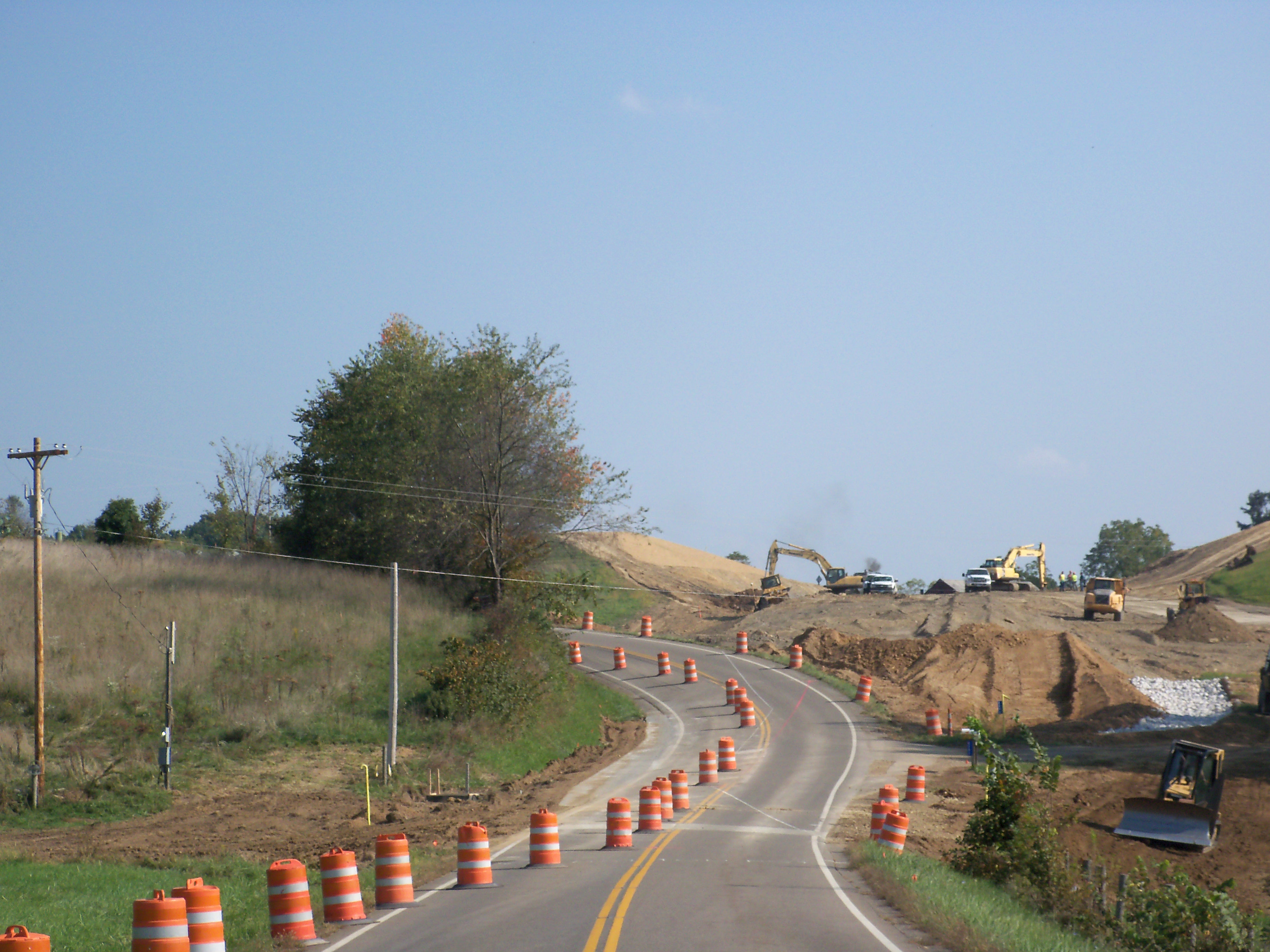 Ohio State Route 542 will be straightened here in 2014